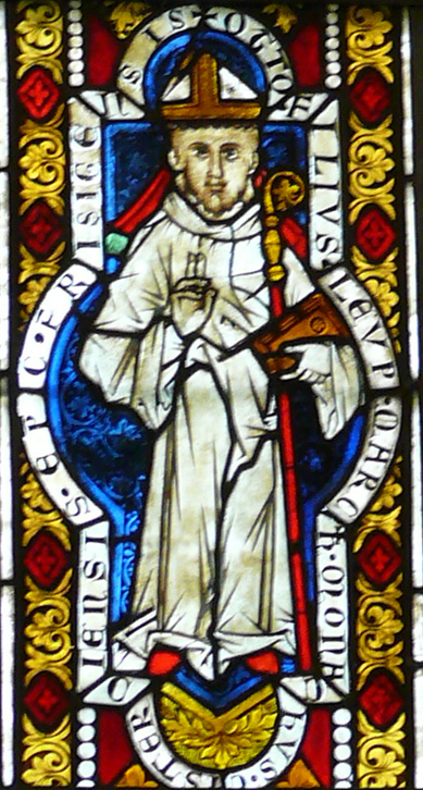 Otto of Freising